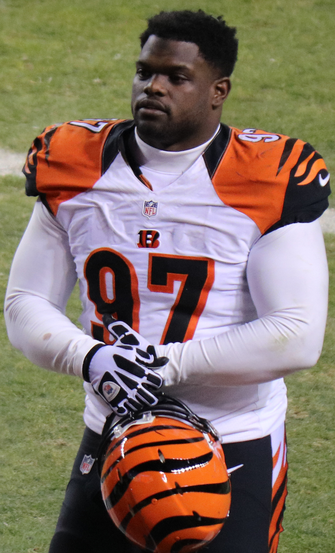 Geno Atkins, a player on the National Football League.